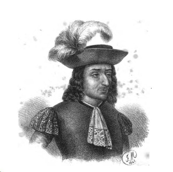 Portrait of Vicente Mut y Armengol